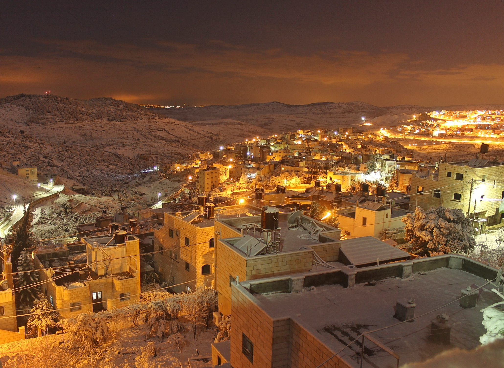 Nahalin Village - Located south-west of the city of Bethlehem, one of the most beautiful natural areas in Palestine. The image was taken at three o'clock in the morning after a snowstorm stopped .